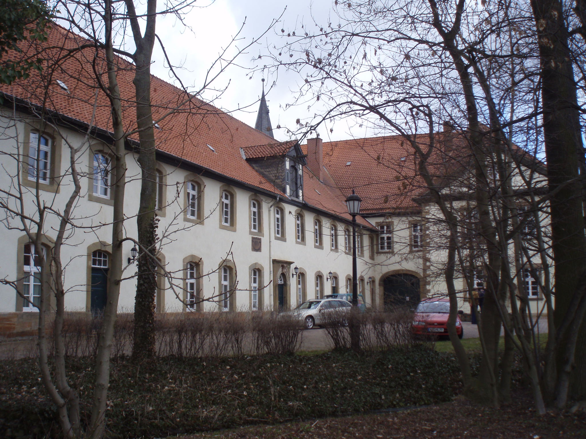 Hotel Building of Monastery Wöltingerode near Vienenburg in Lower Saxony, Germany